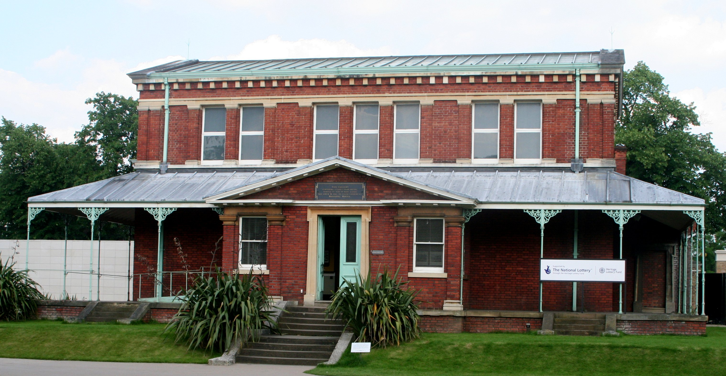 The Marian North Gallery at Kew Gardens